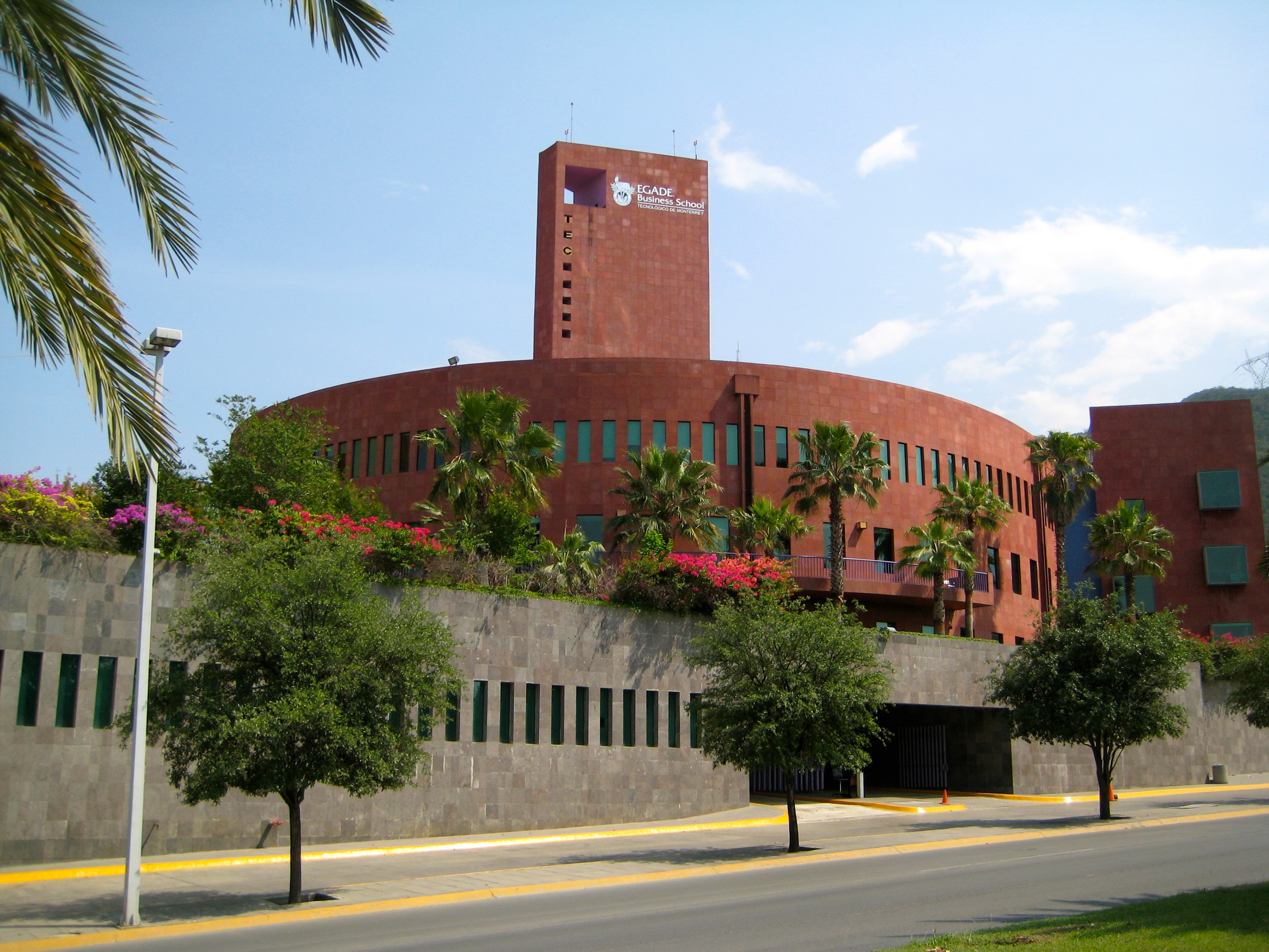 EGADE Business School as seen from Rufino Tamayo Park in San Pedro Garza García, Mexico.